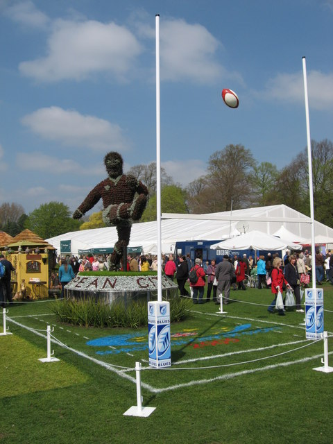 RHS Flower Show, Bute Park